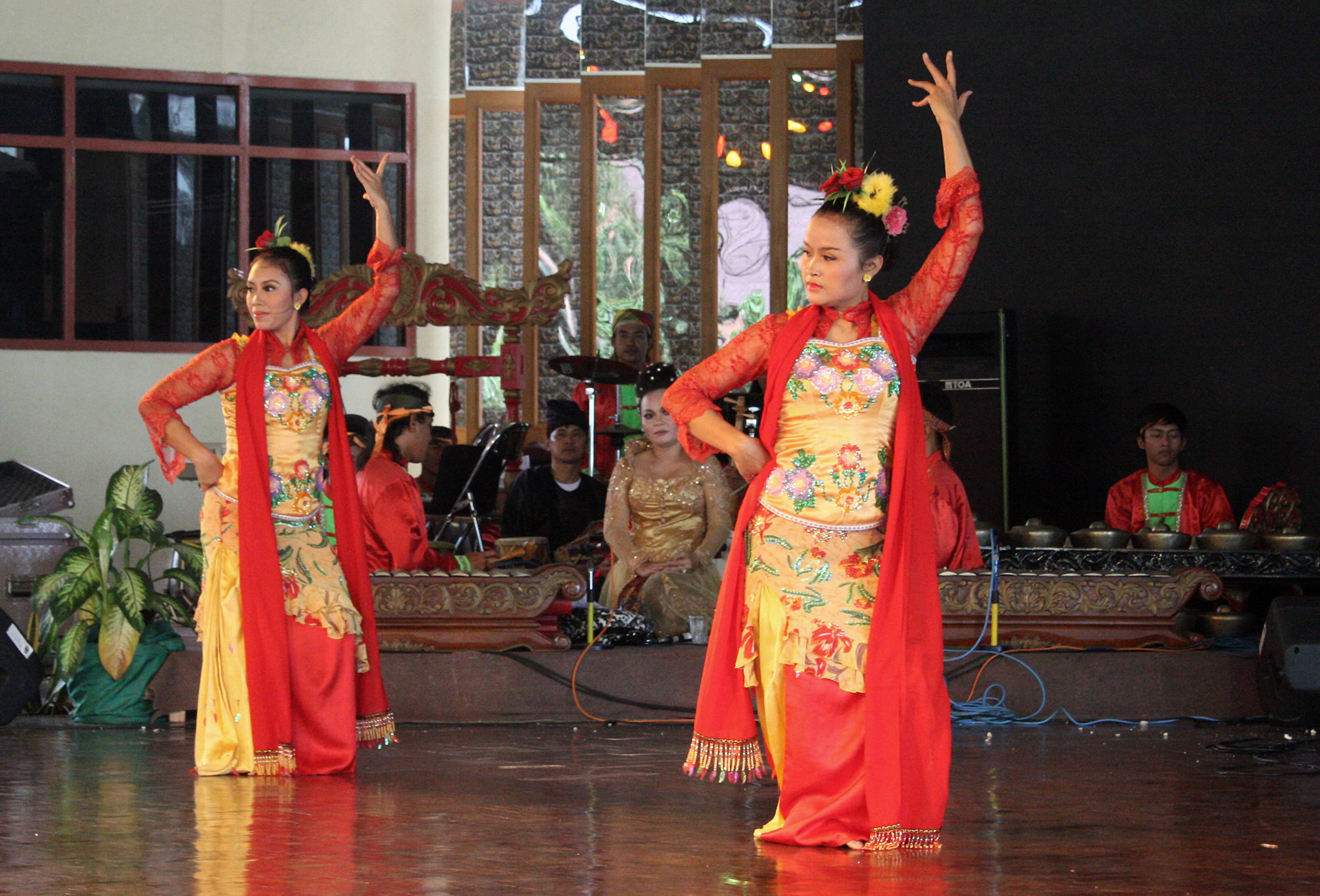 The Sundanese Jaipongan Langit Biru dance performance in West Java Pavilion, Taman Mini Indonesia Indah, Jakarta.